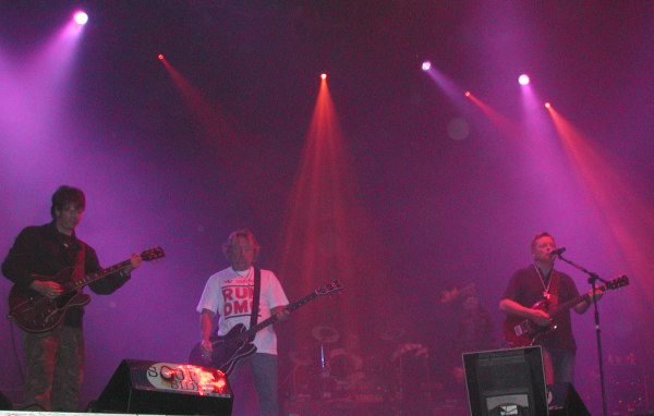 british music band New Order, live at the "Southside" Festival in Neuhausen ob Eck, Germany, late at night from June 11 to June 12, 2005